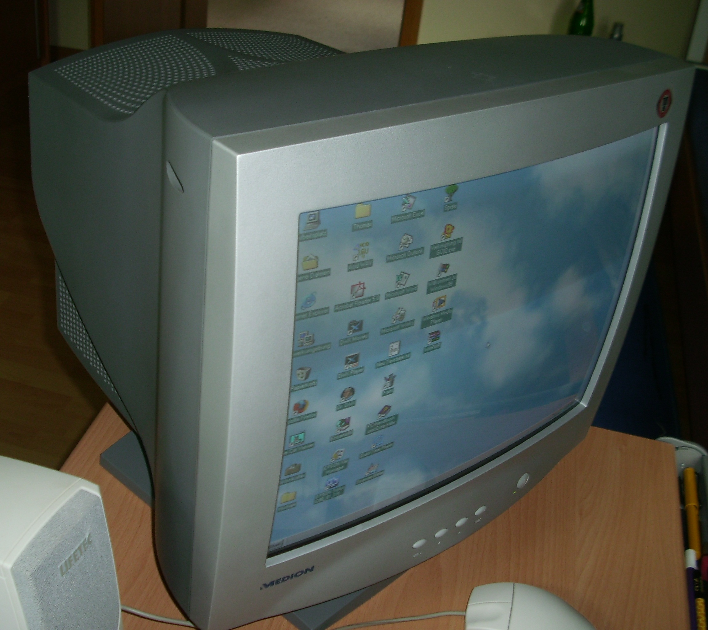 CRT computer monitor. Price: 139 Euro (19th November 2003). This was three times a cheaper price than that of flat screens of the time.